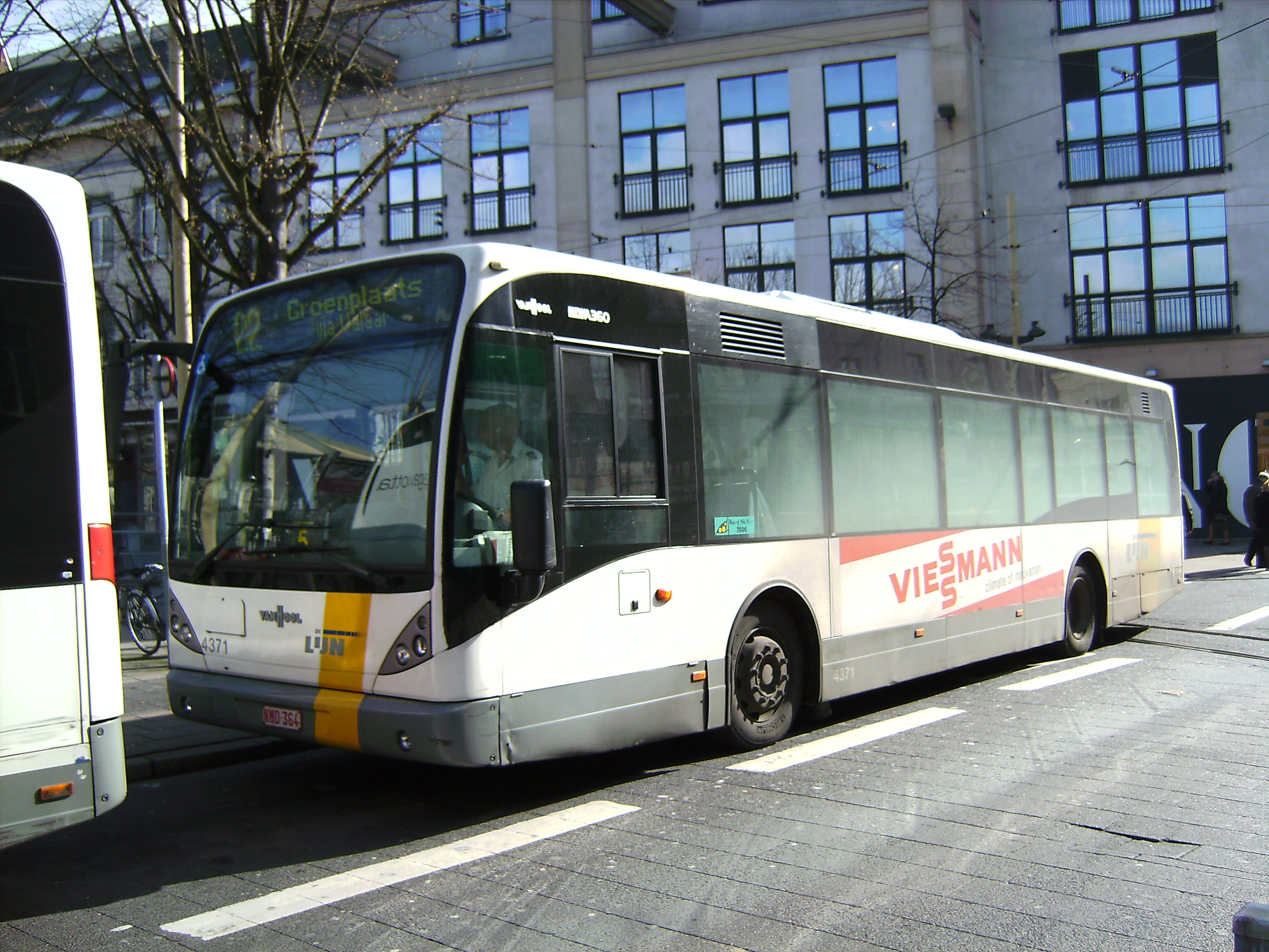 Type Van Hool A360 bus, nr 4371 of the line 22 at the Groenplaats stop in Antwerp.